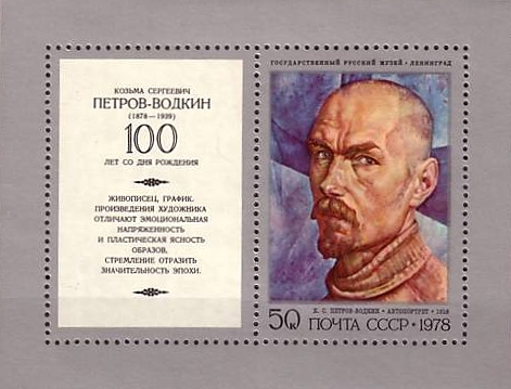 Stamp of the Soviet Union with a self-portrait of Kuzma Petrov-Vodkin, 1978.